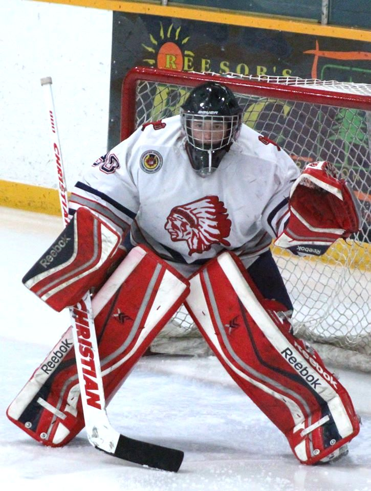 This photo was taken by Devan Mighton during the 2014-15 GOJHL season.